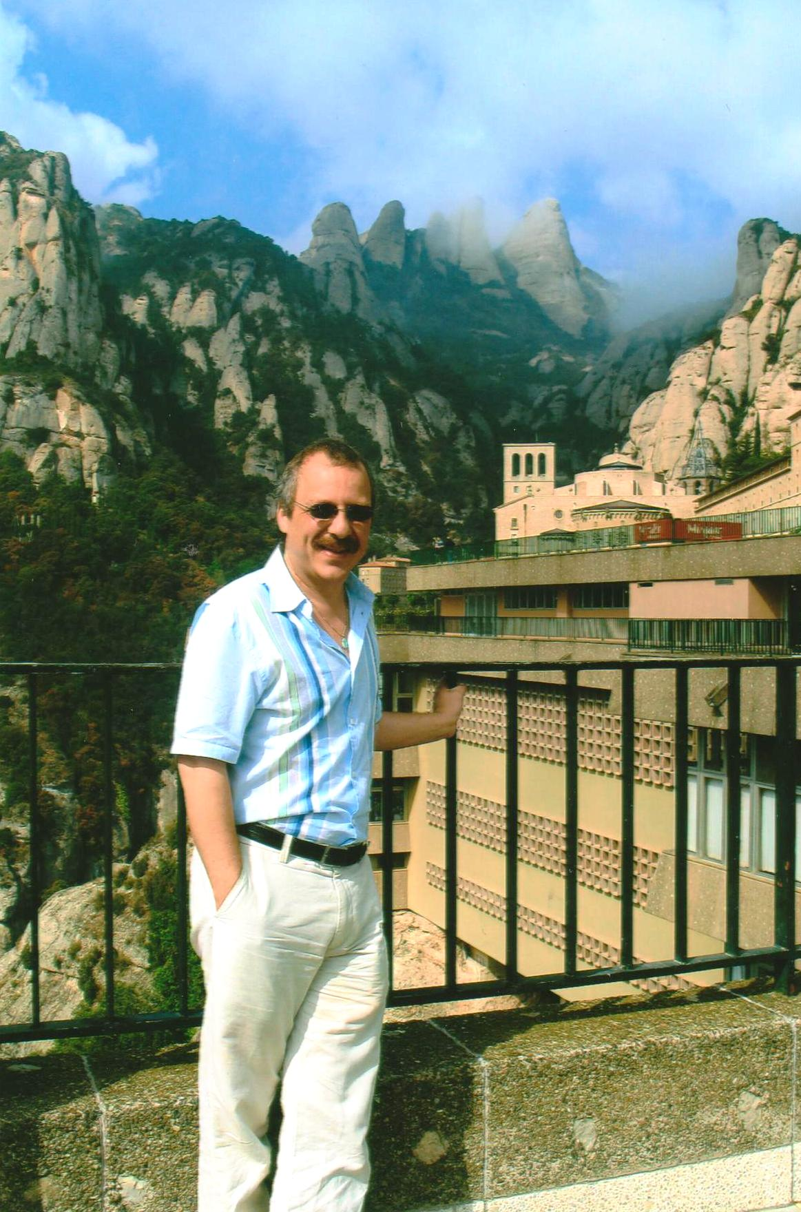 Neglia in Montserrat - 2005